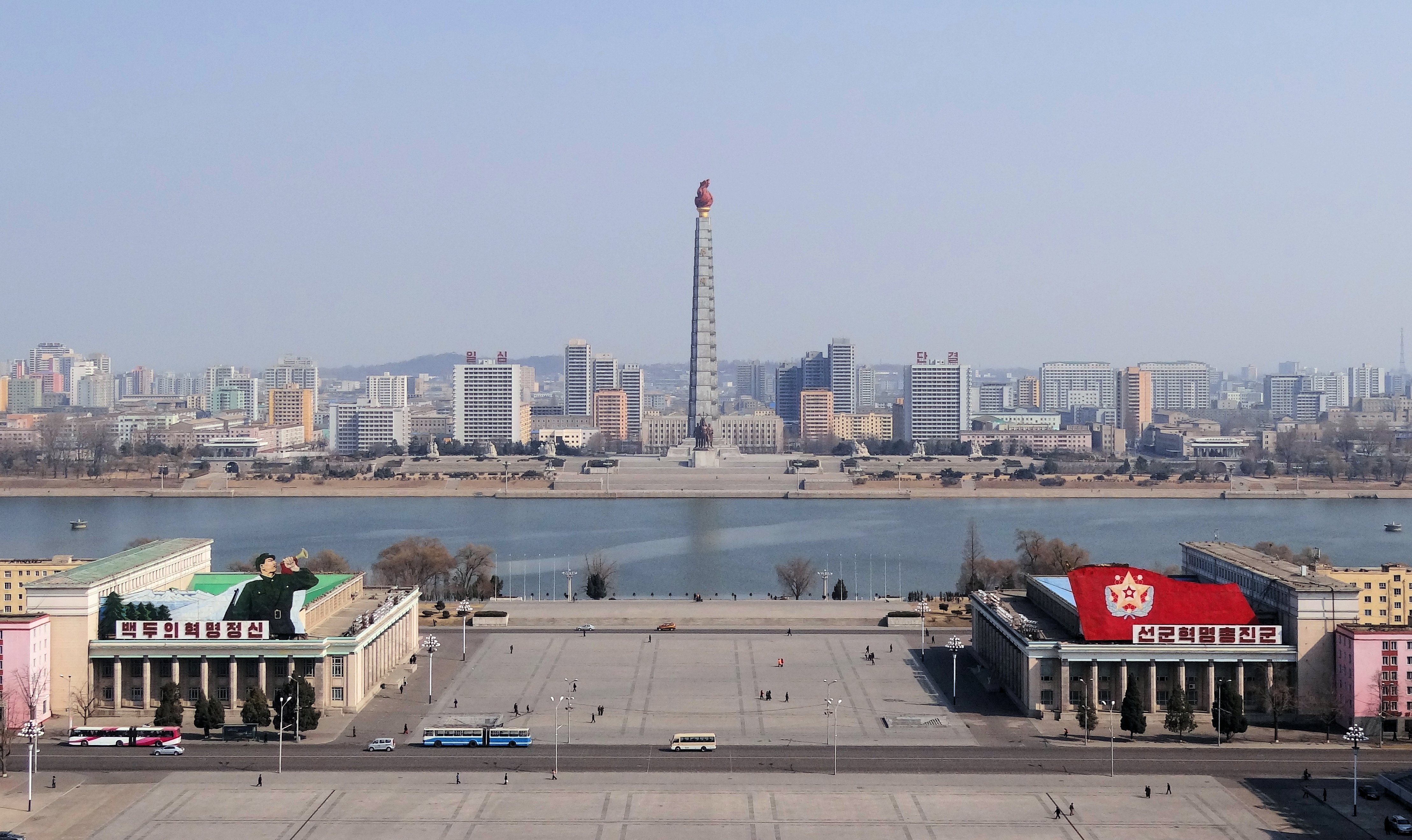 The Juche Tower seen from the roof of the Grand People's Study House, across Kim Il-sung Square and the river Taedong.